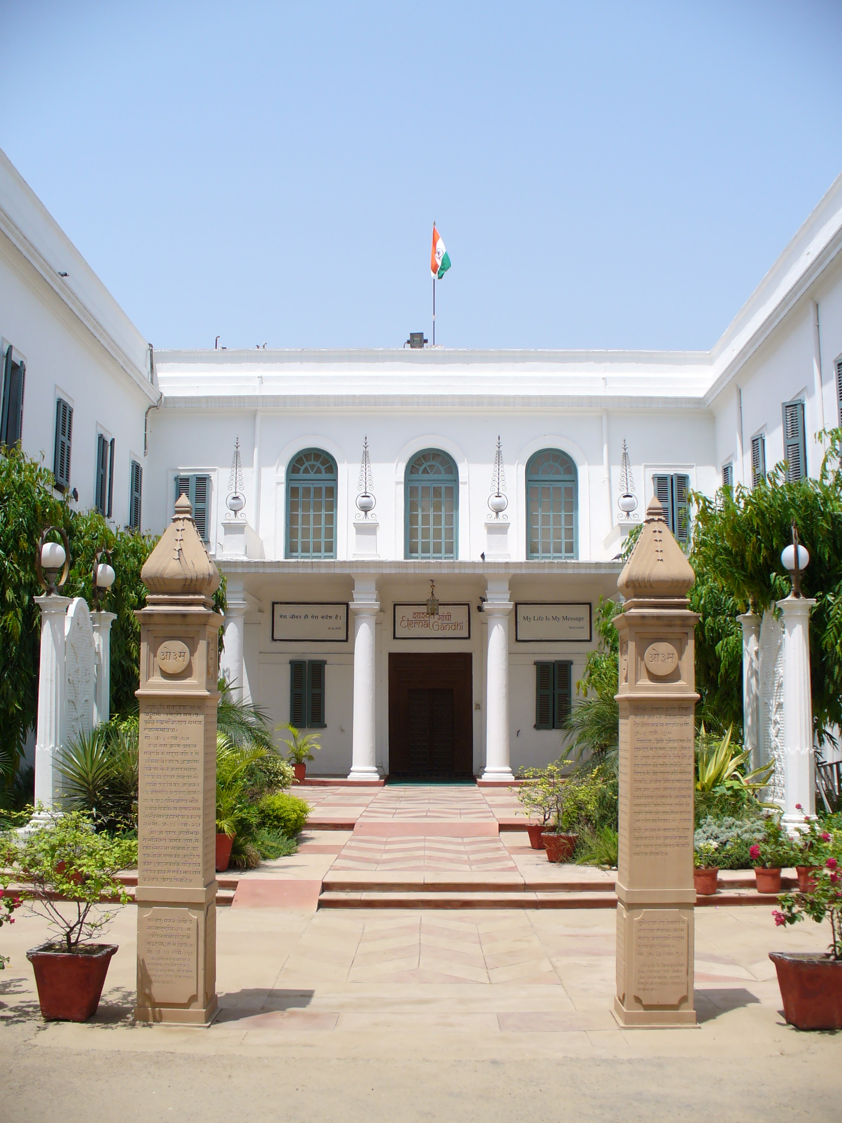 House where Mahatma Gandhi was assasinated